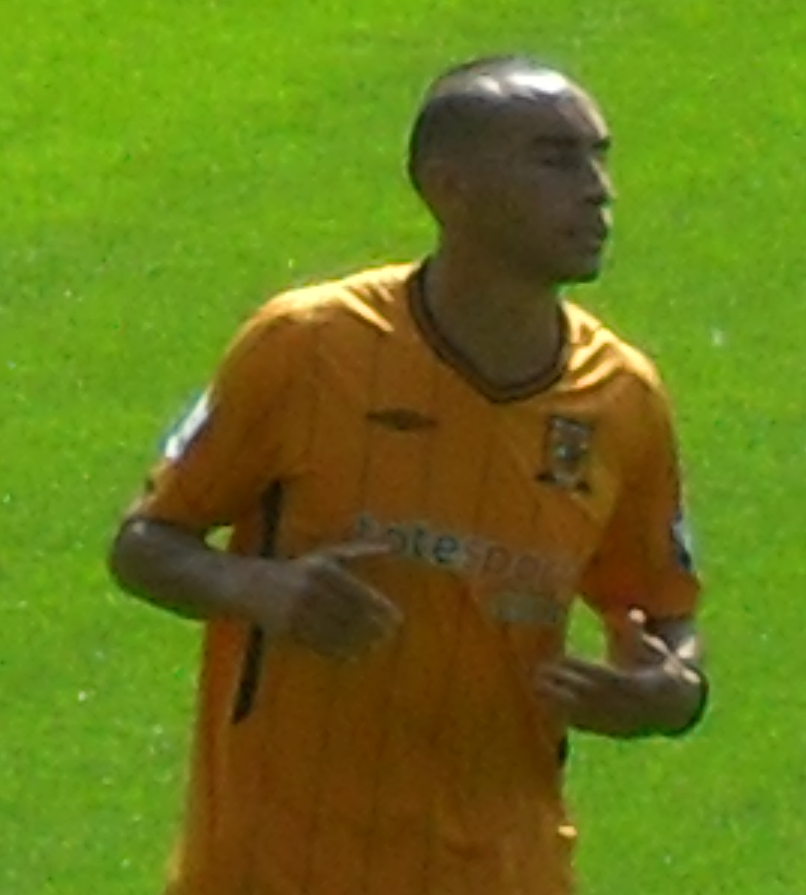 Craig Fagan